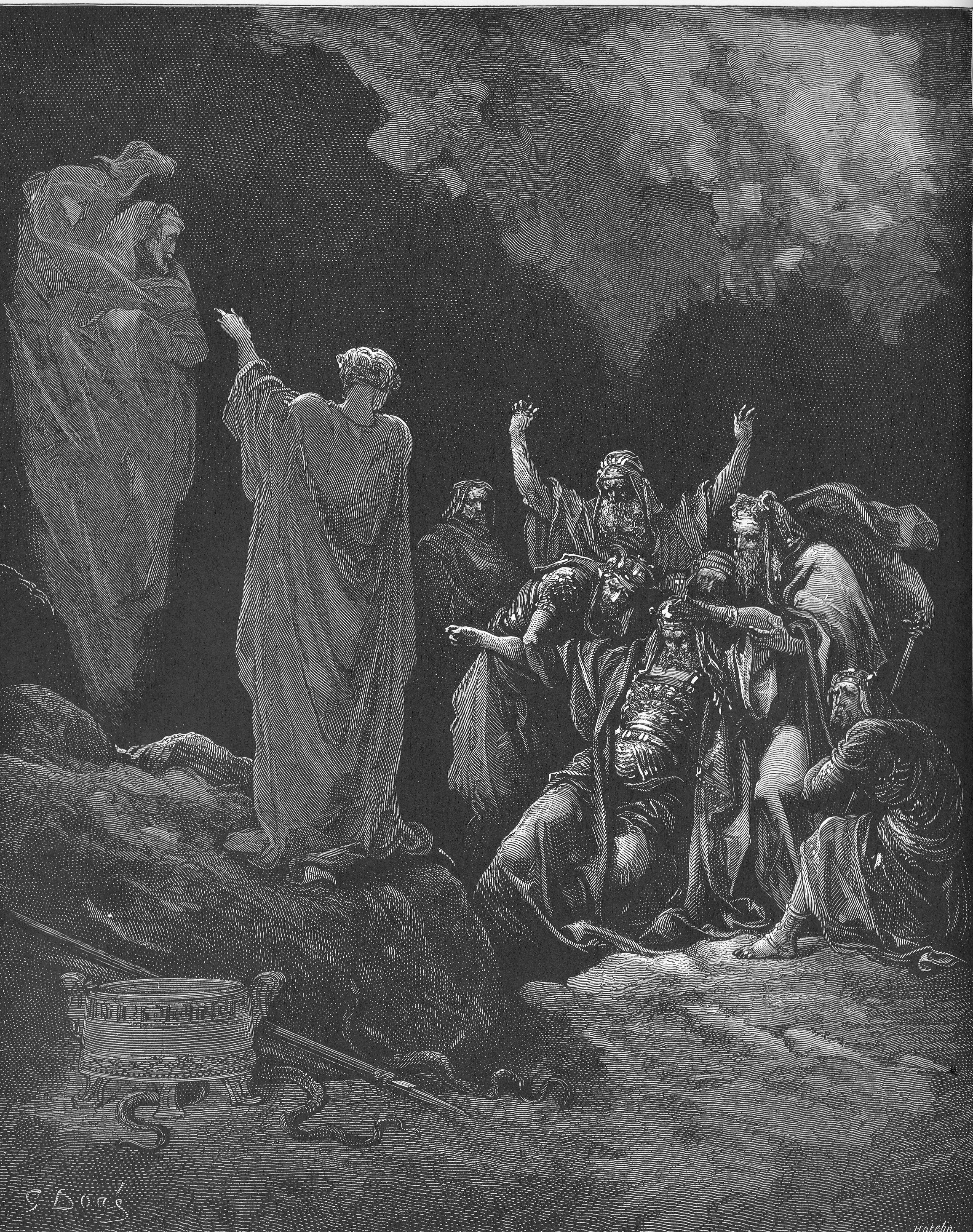 Saul and the Witch of Endor (1Sam. 28:7-25)